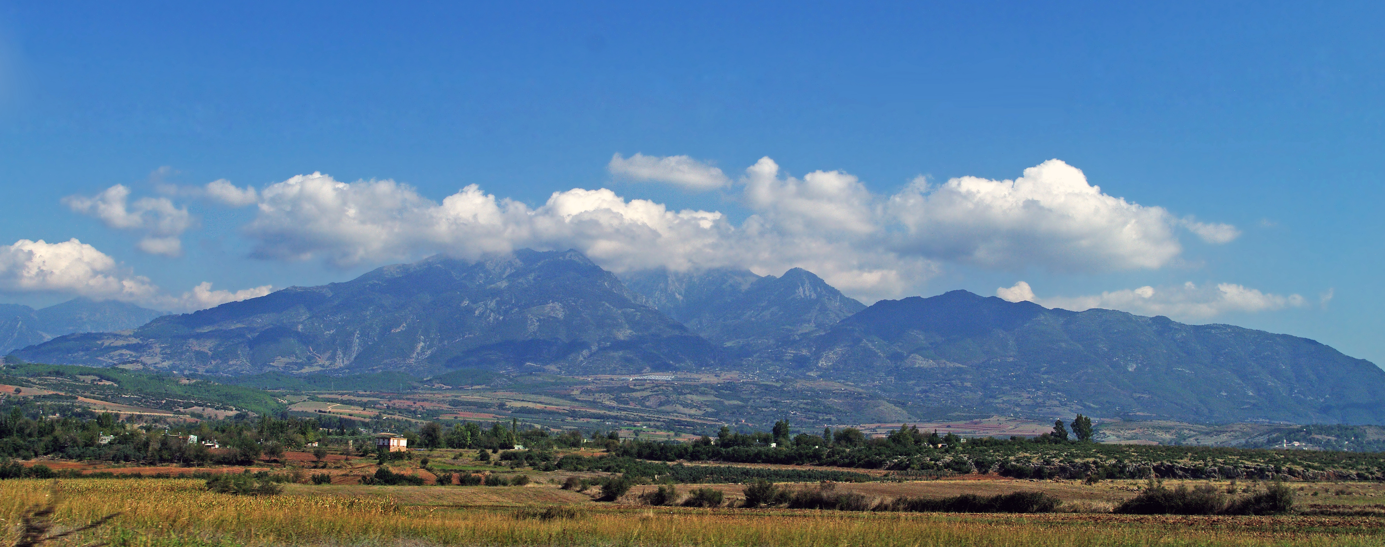 A western side view of the Mount Düldül, located in the most north end of Anti-taurus mountains range. Düziçi - Osmaniye,Turkey.